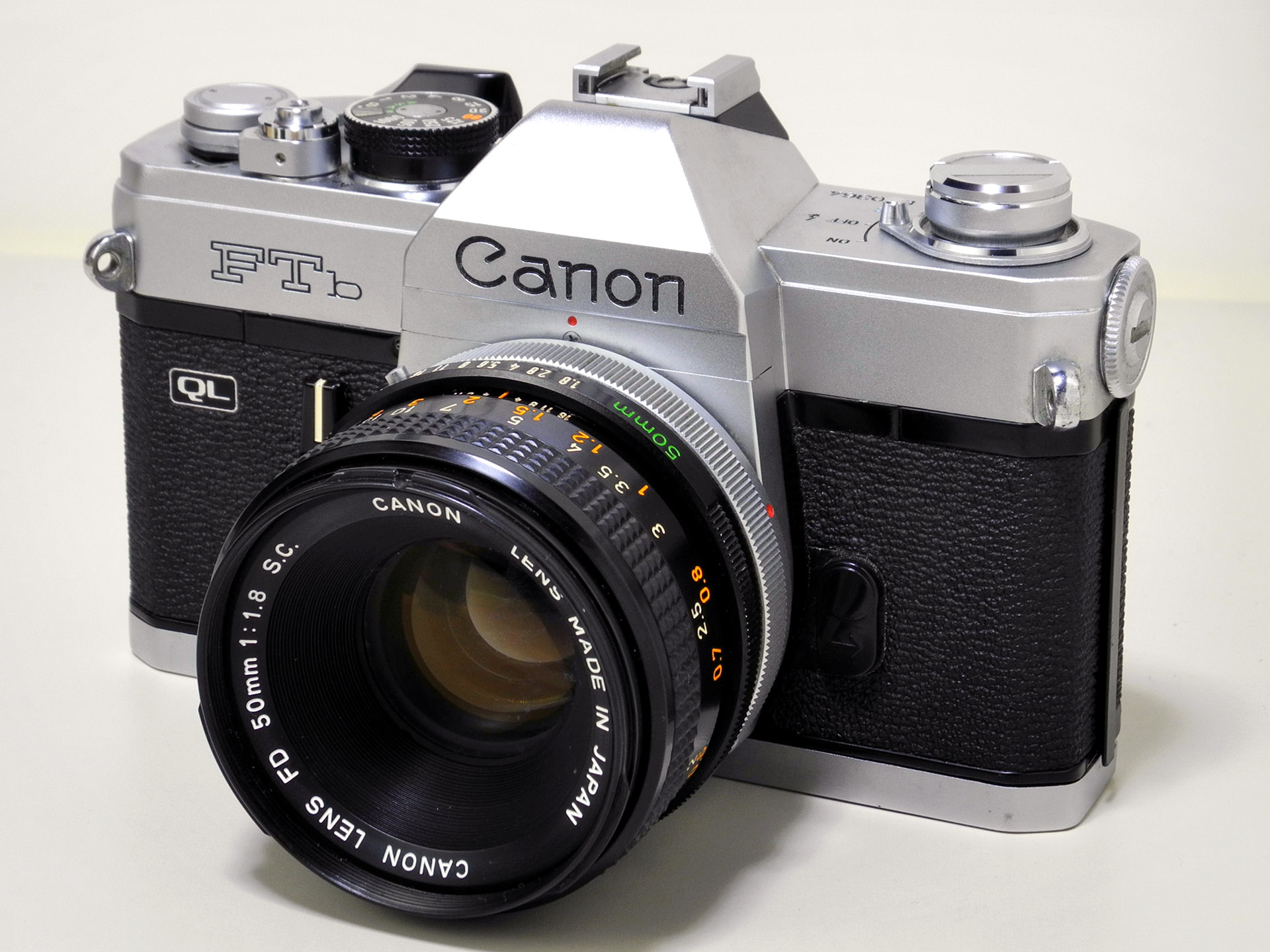 Canon FTb(new) w/50mm f/1.8